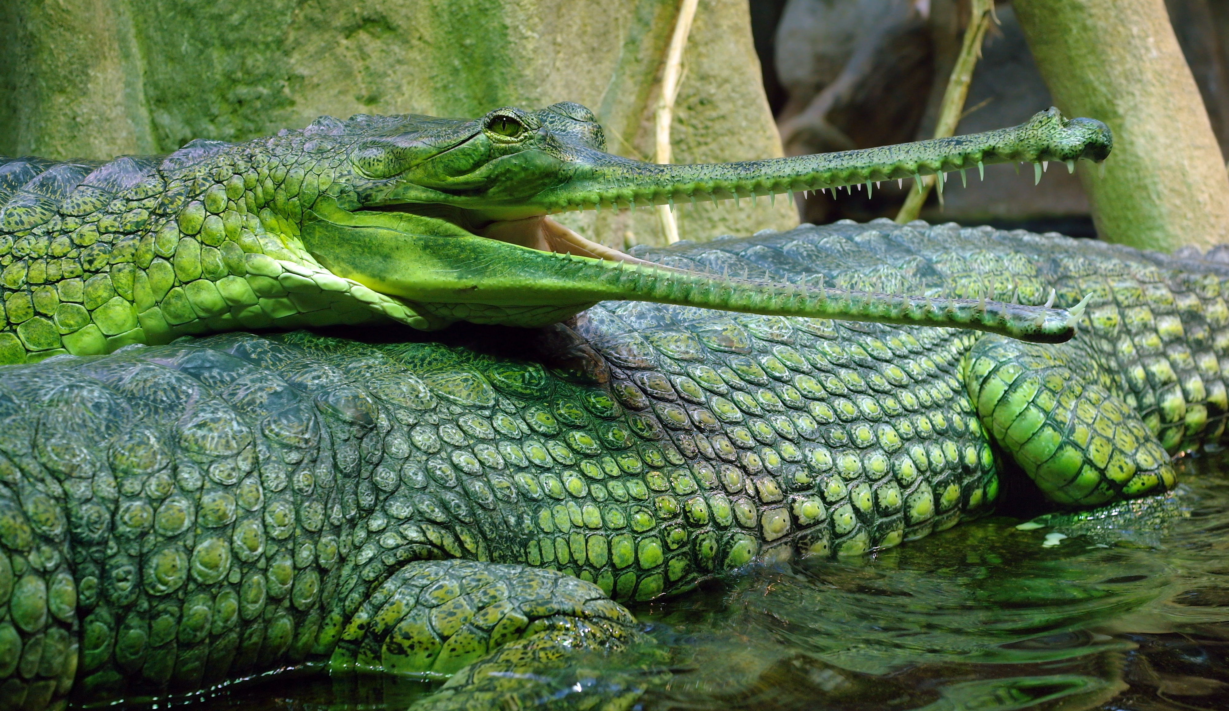 Indian gavials in Prague Zoo.